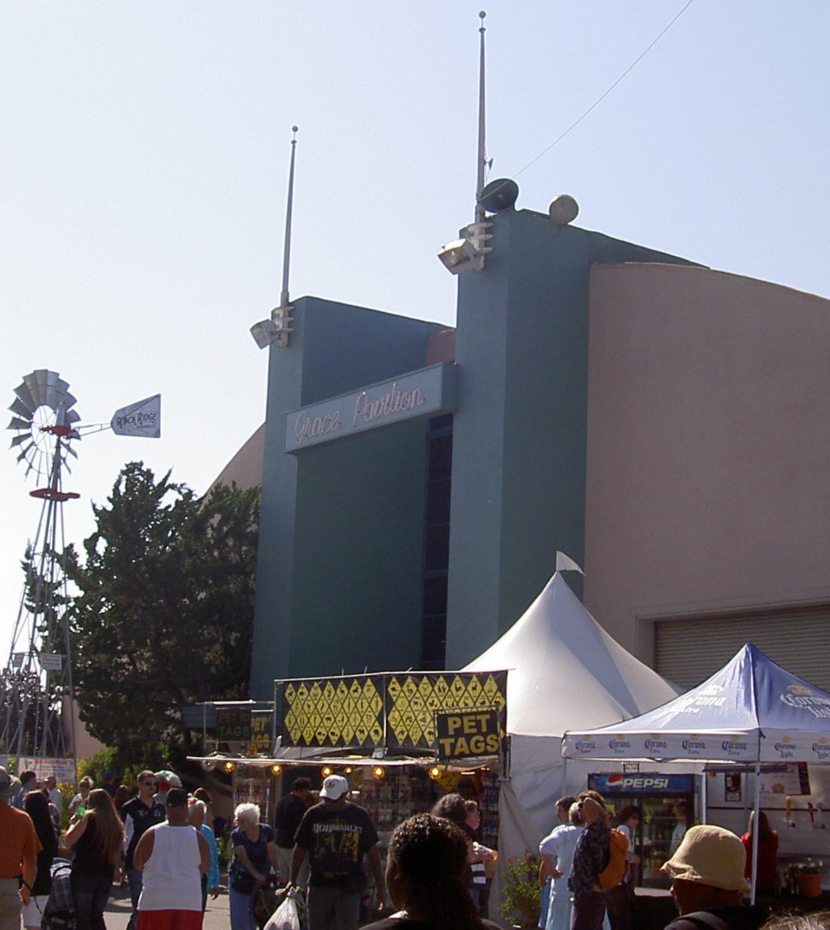 south entrance to Grace Pavilion (at the Sonoma County Fairgrounds in Santa Rosa, California, USA) during the 2010 Sonoma County Fair